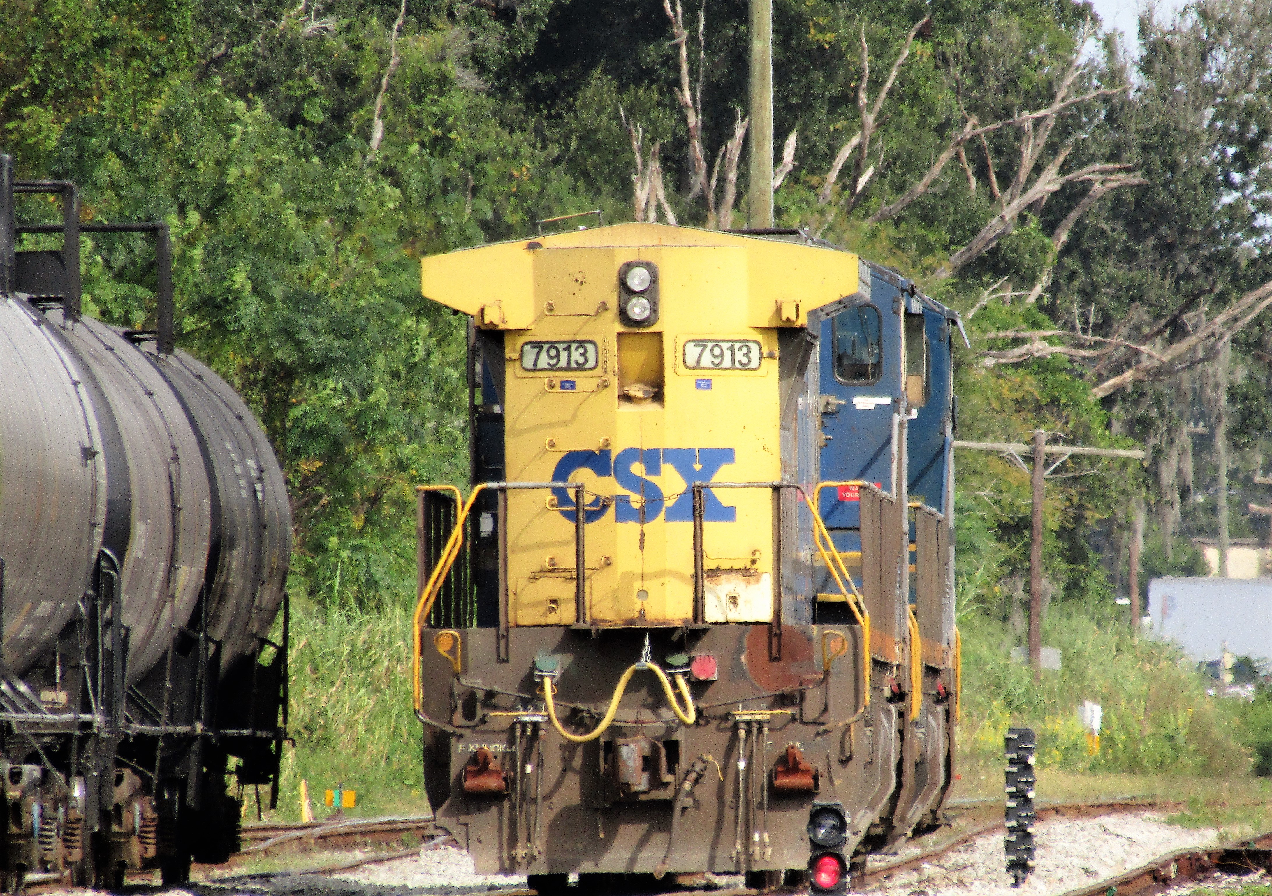 GE C40-8W 7913 CSX Sand Lake Road Station SunRail in Orange County, Florida